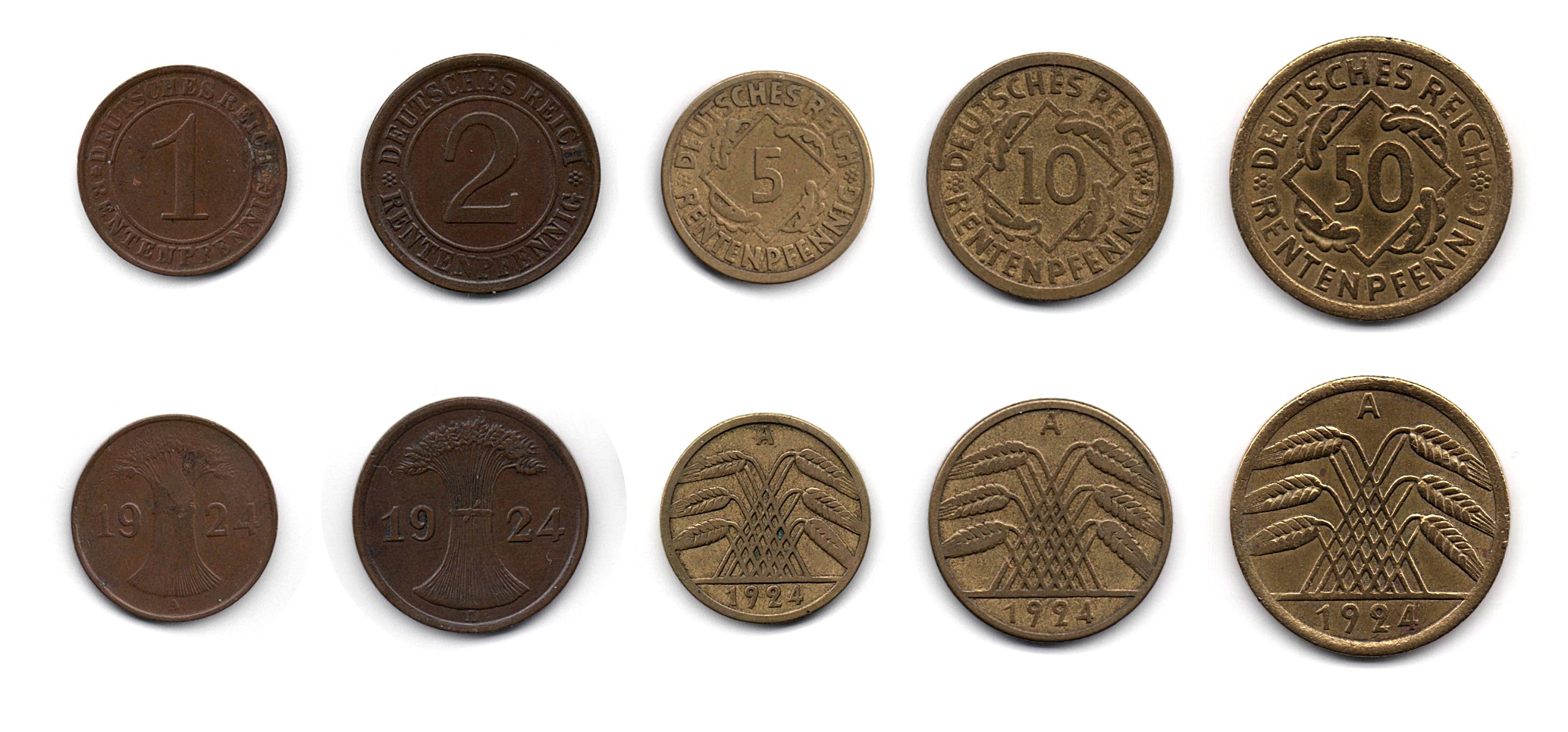 1, 2, 5, 10 and 50 Rentenpfennig coins; year of mintage: 1924; mintmark A (minted in Berlin)